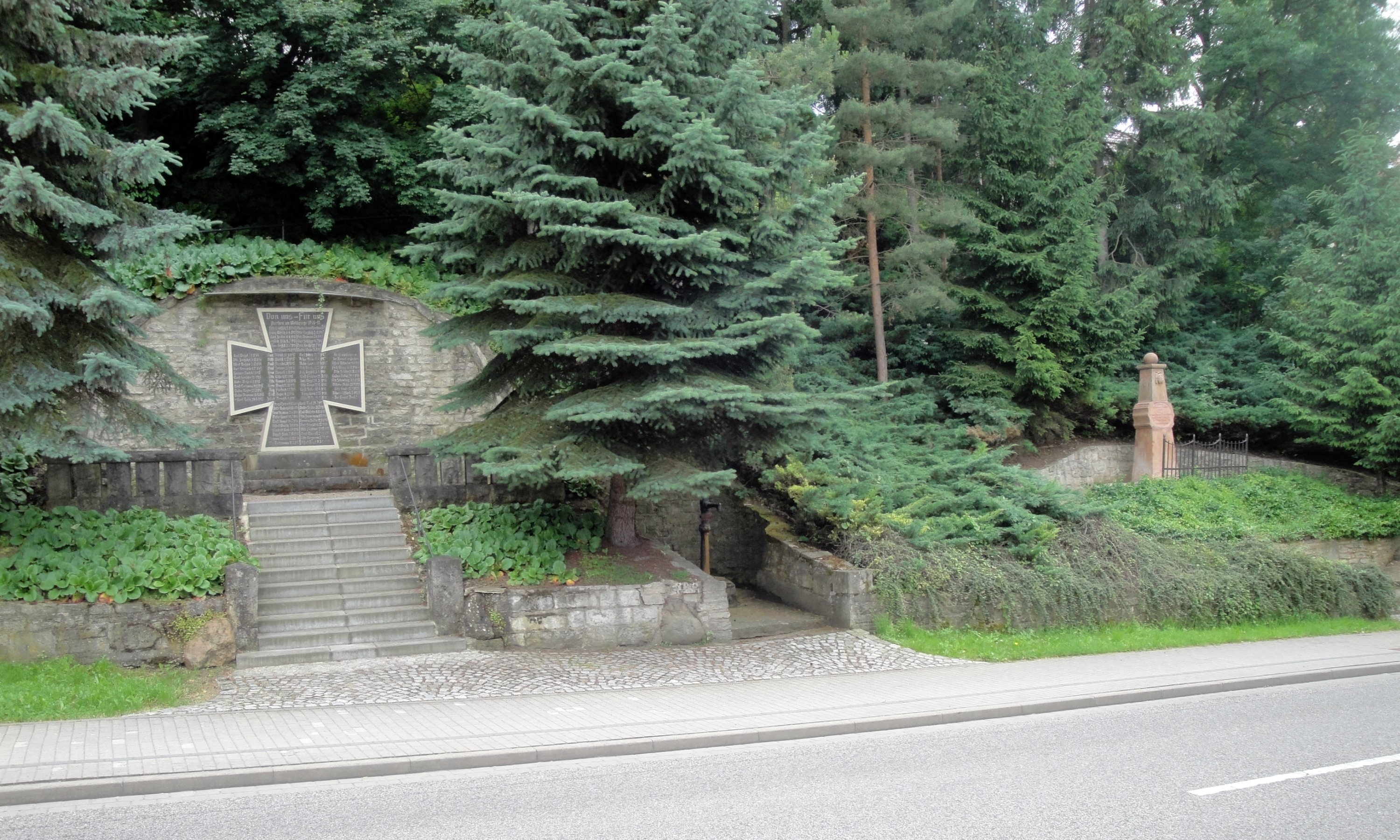 War memorials in Almrich, Naumburg (Saale), Germany